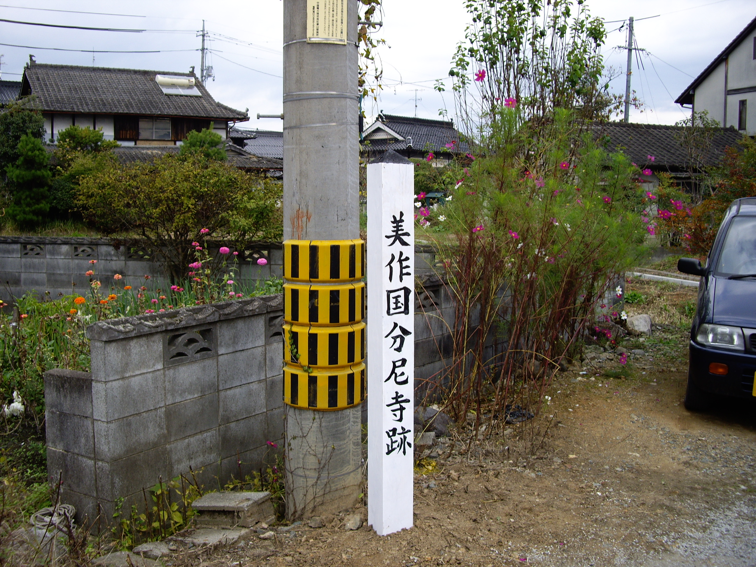 The ruins of Mimasaka Kokubunniji Temple, in Tsuyama, Okayama Prefecture, Japan